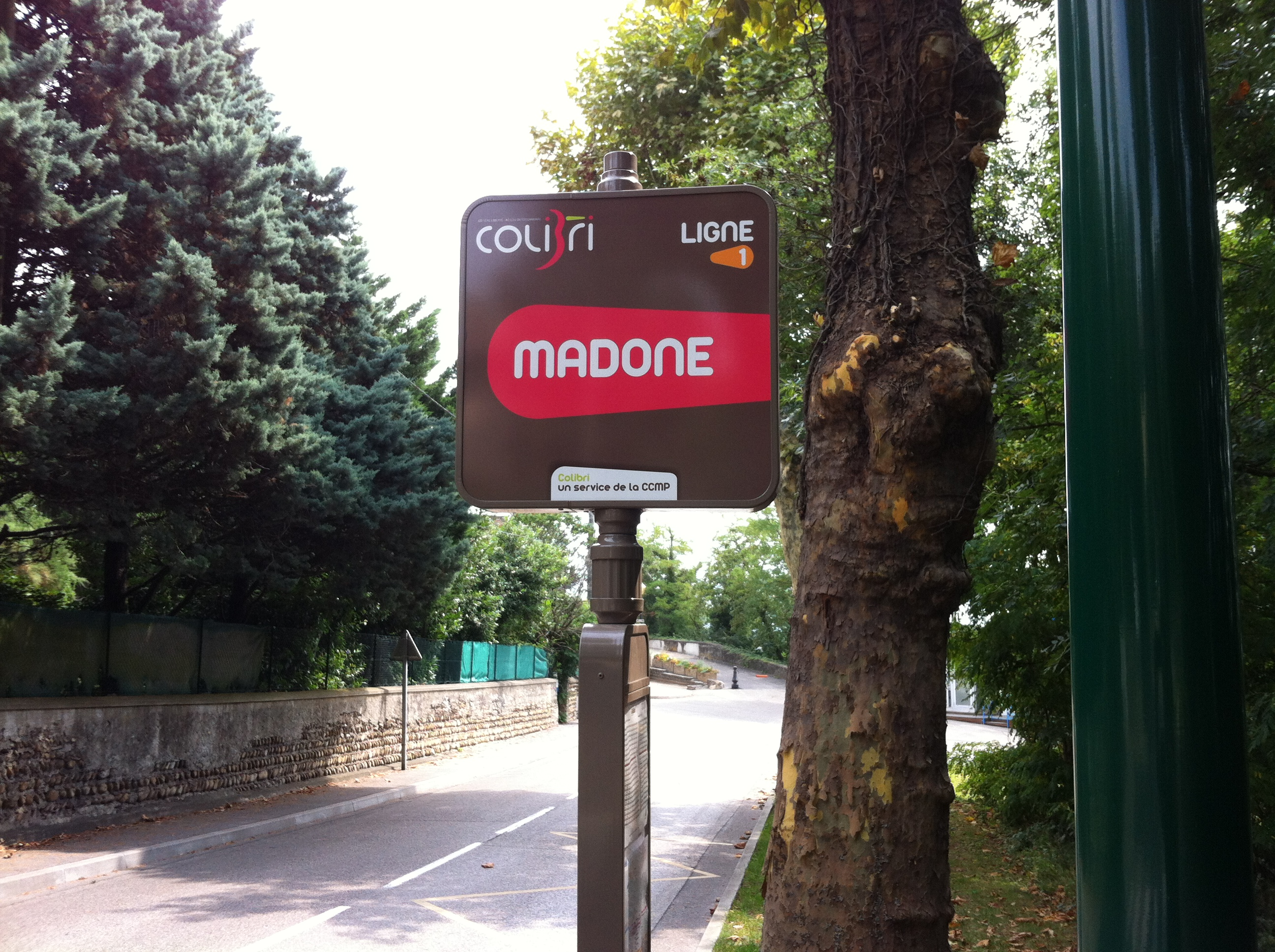 Madone (Colibri bus stop).